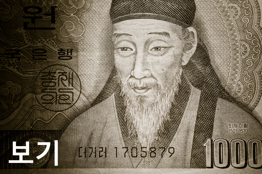 Older version of Korean 1000 won bill